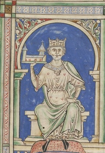 William I the Conqueror with Battle Abbey